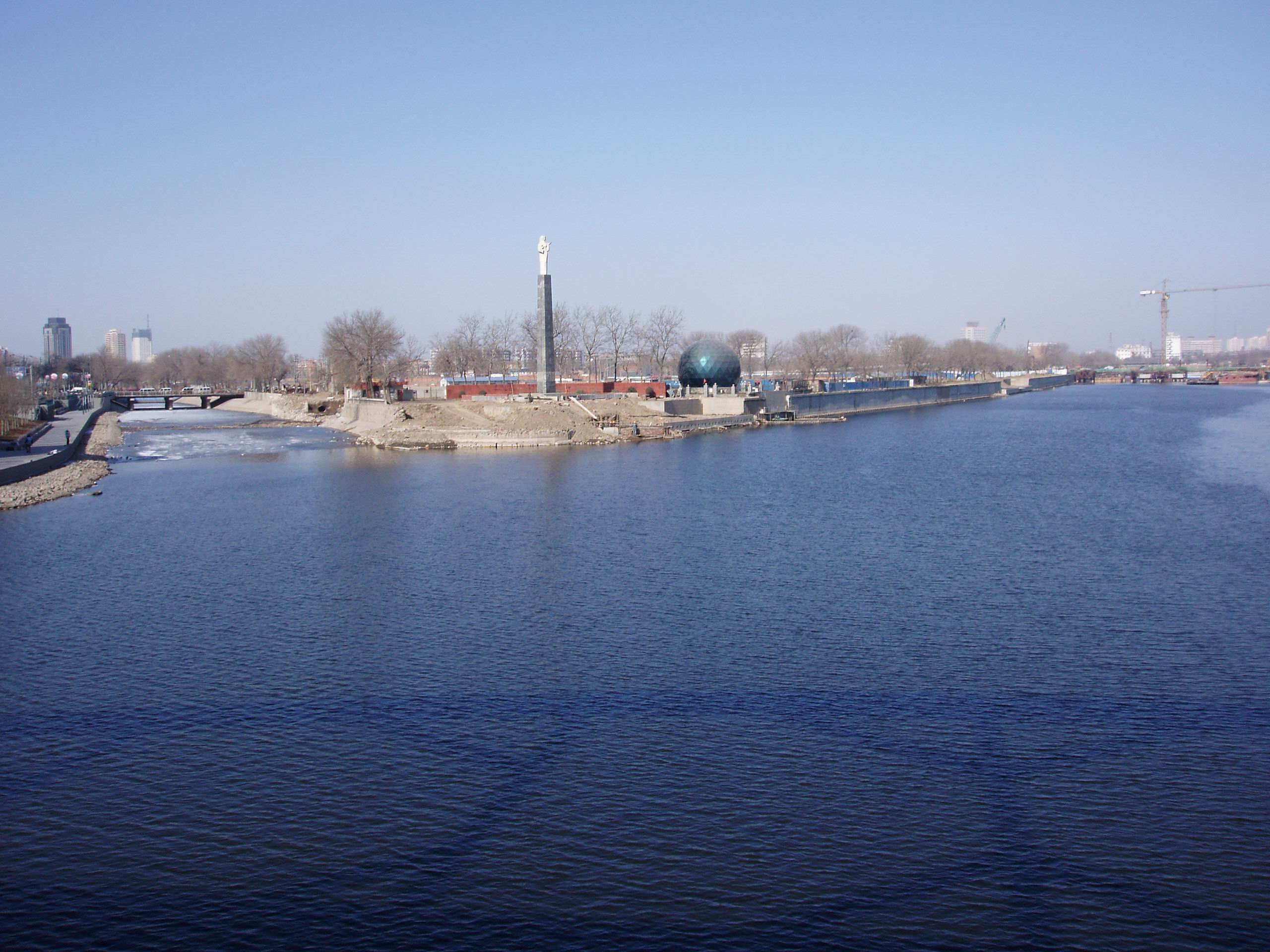 Haihe River main reach starting